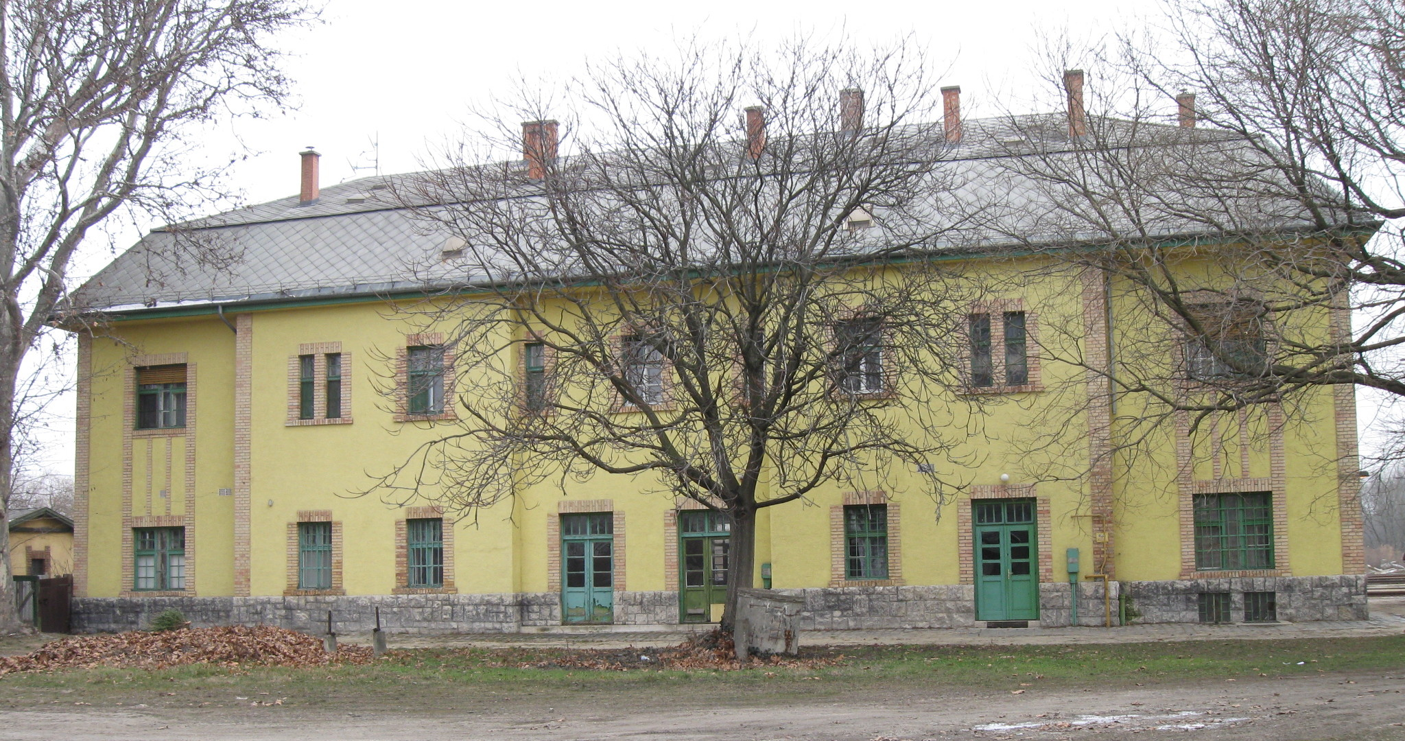 Railway station - Budapest, XXIII. distr., Soroksár, Jelző street (at the end of Hősök tere)